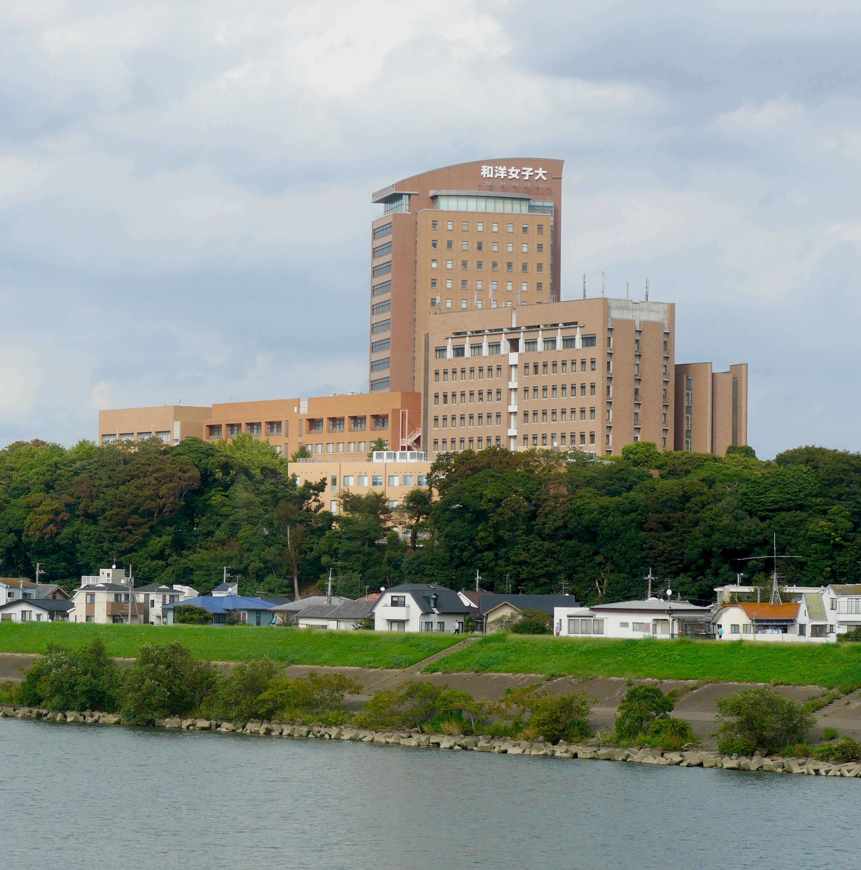 Wayō Women's University (和洋女子大学 Wayō joshi daigaku)